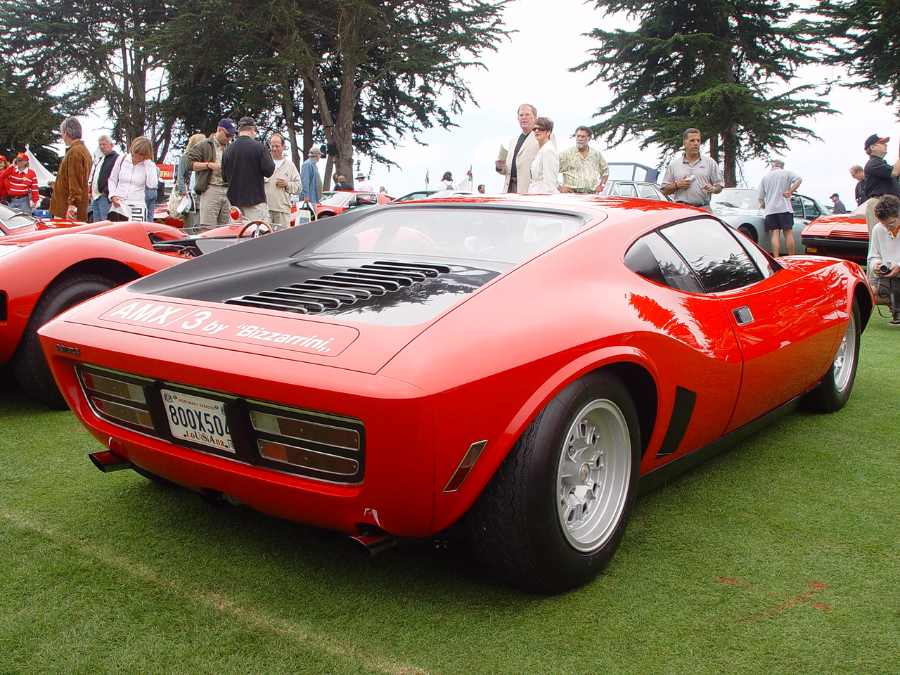 AMC AMX/3. Photograph taken at 2004 Concorso Italiano.